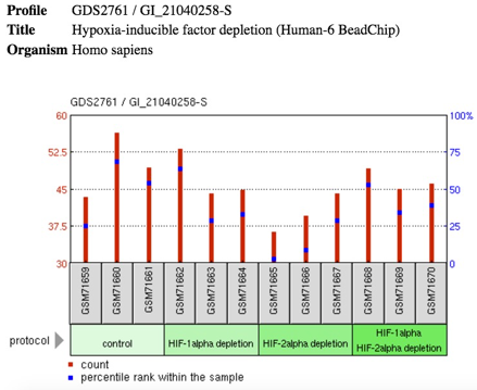 Expression level of C16orf71 in deletions of HIFs